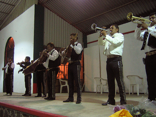 Every time these guys played, the rain came down harder.